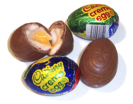 Cadbury eggs, a common Easter candy. One is broken to show the yellow-orange interior that simulates egg yolk.